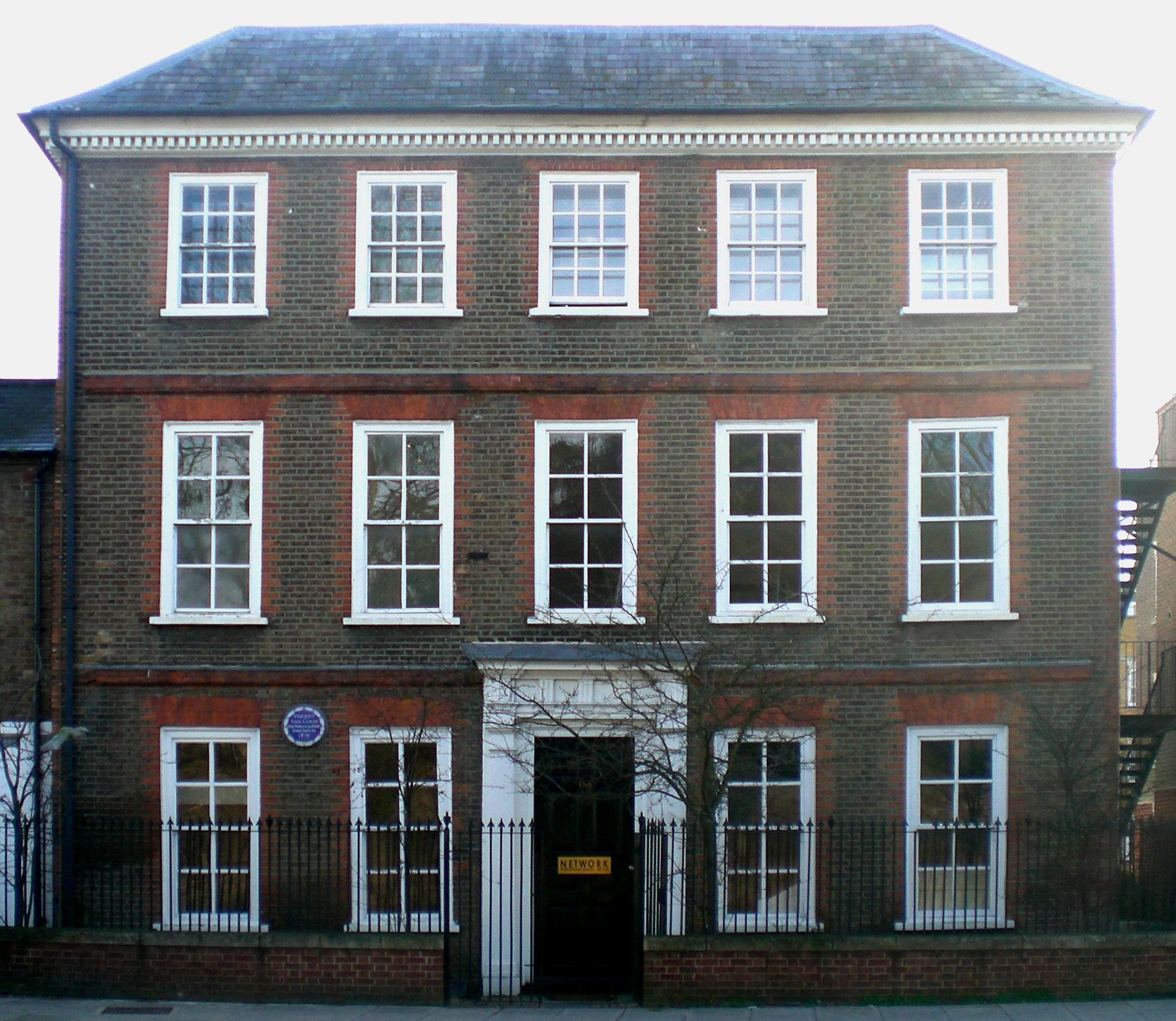 The house "Holme Court" where van Gogh stayed in 1876, at 158 Twickenham Road, Isleworth, GB